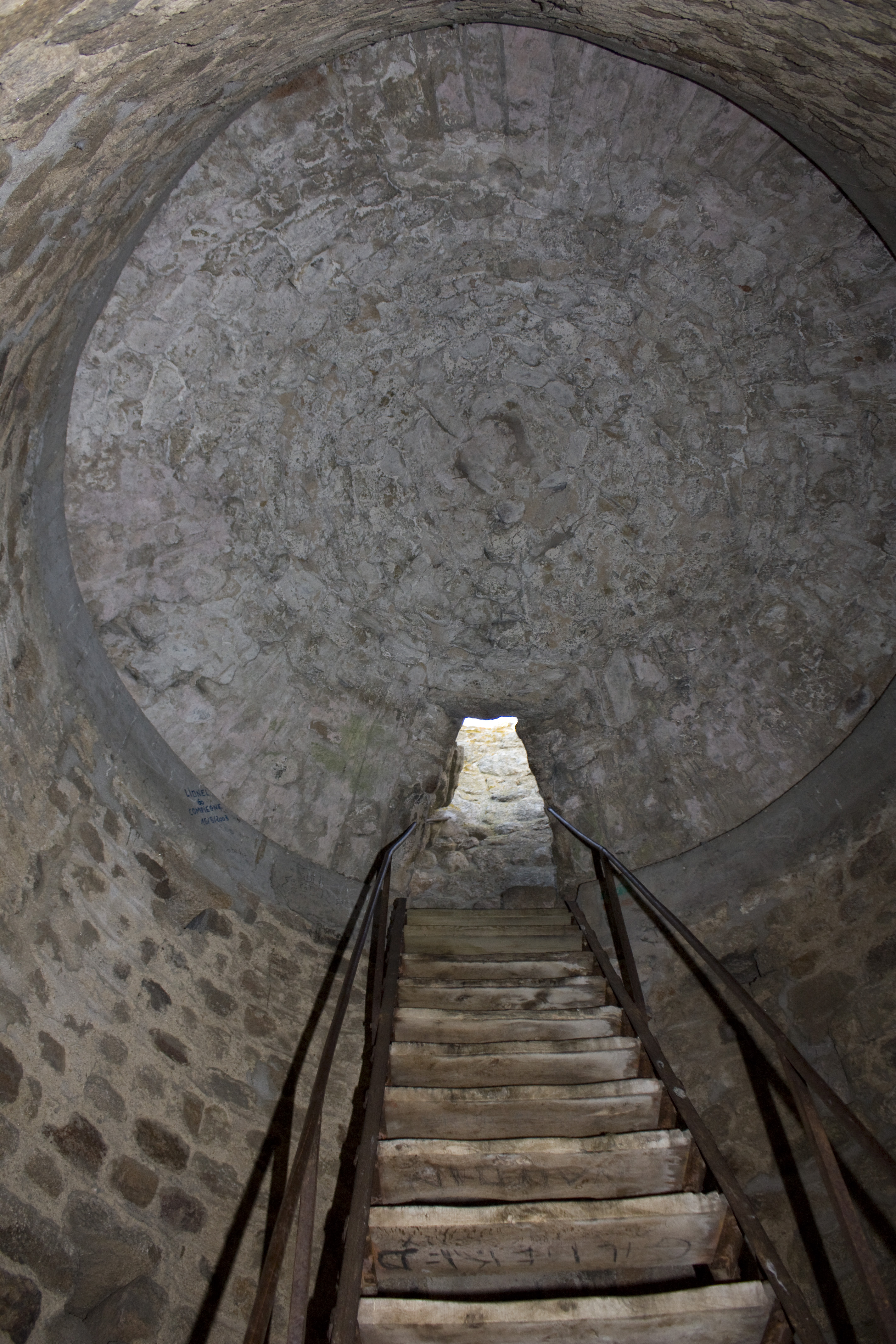 The top of the tower is only accessible by a mouse hole that had to be expandd to provide access to the terrace.